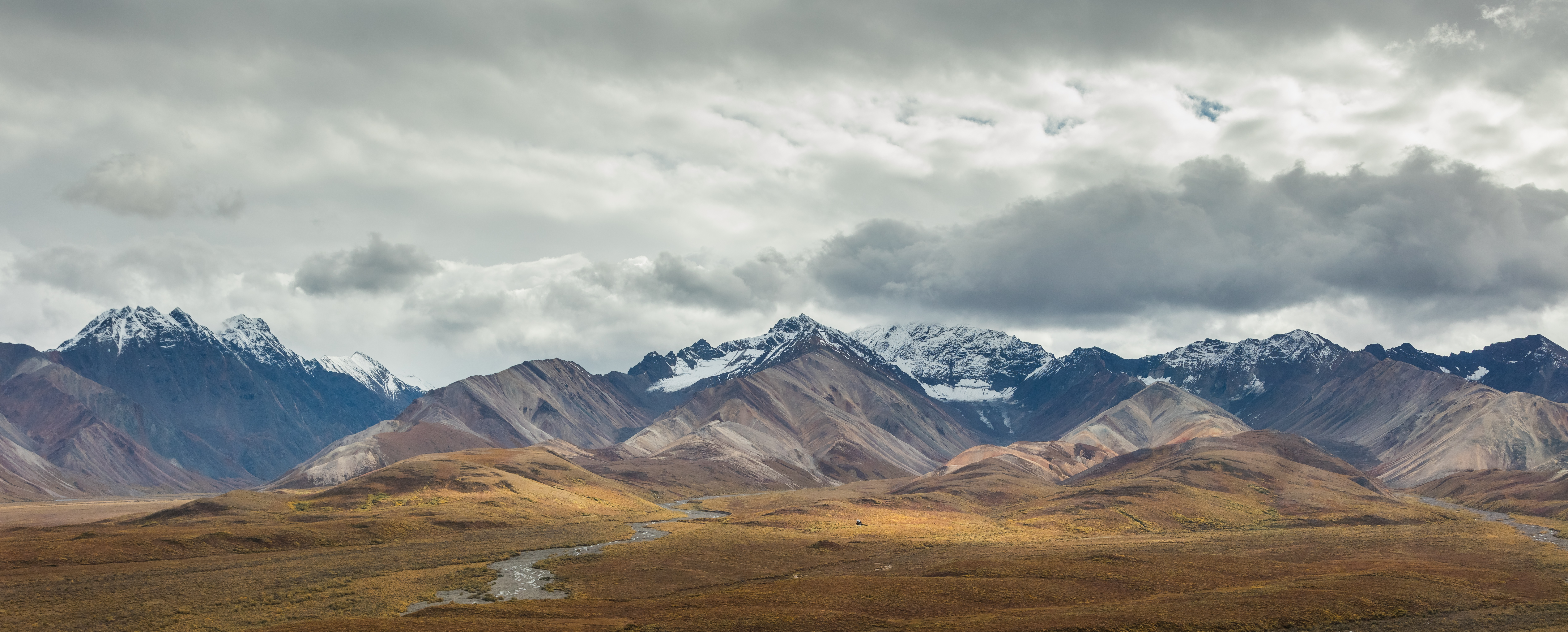 Landscape of Denali National Park from Eielson Visitor Center, Alaska, United States.